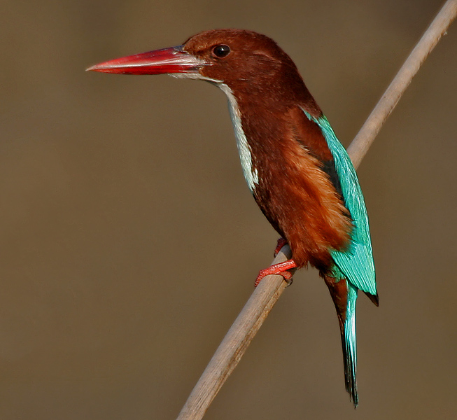 White-throated Kingfisher, White-breasted Kingfisher or Smyrna Kingfisher Halcyon smyrnensis at Hodal, Faridabad, Haryana, India.